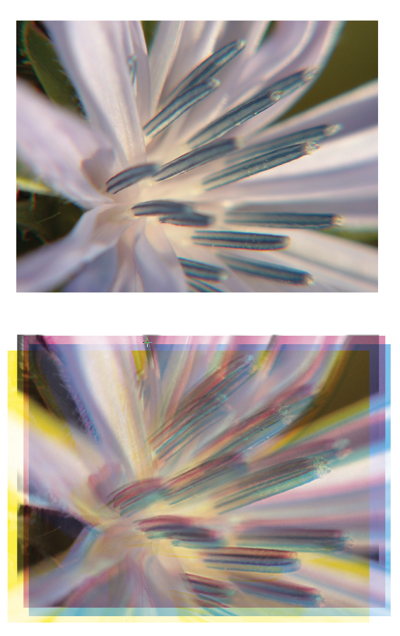 Misregistration, using CMYK. The picture uppermost shows how the printed image should look if the CMYK were rigistred correctly, while the picture below shows how it looks when there is a misregistration.